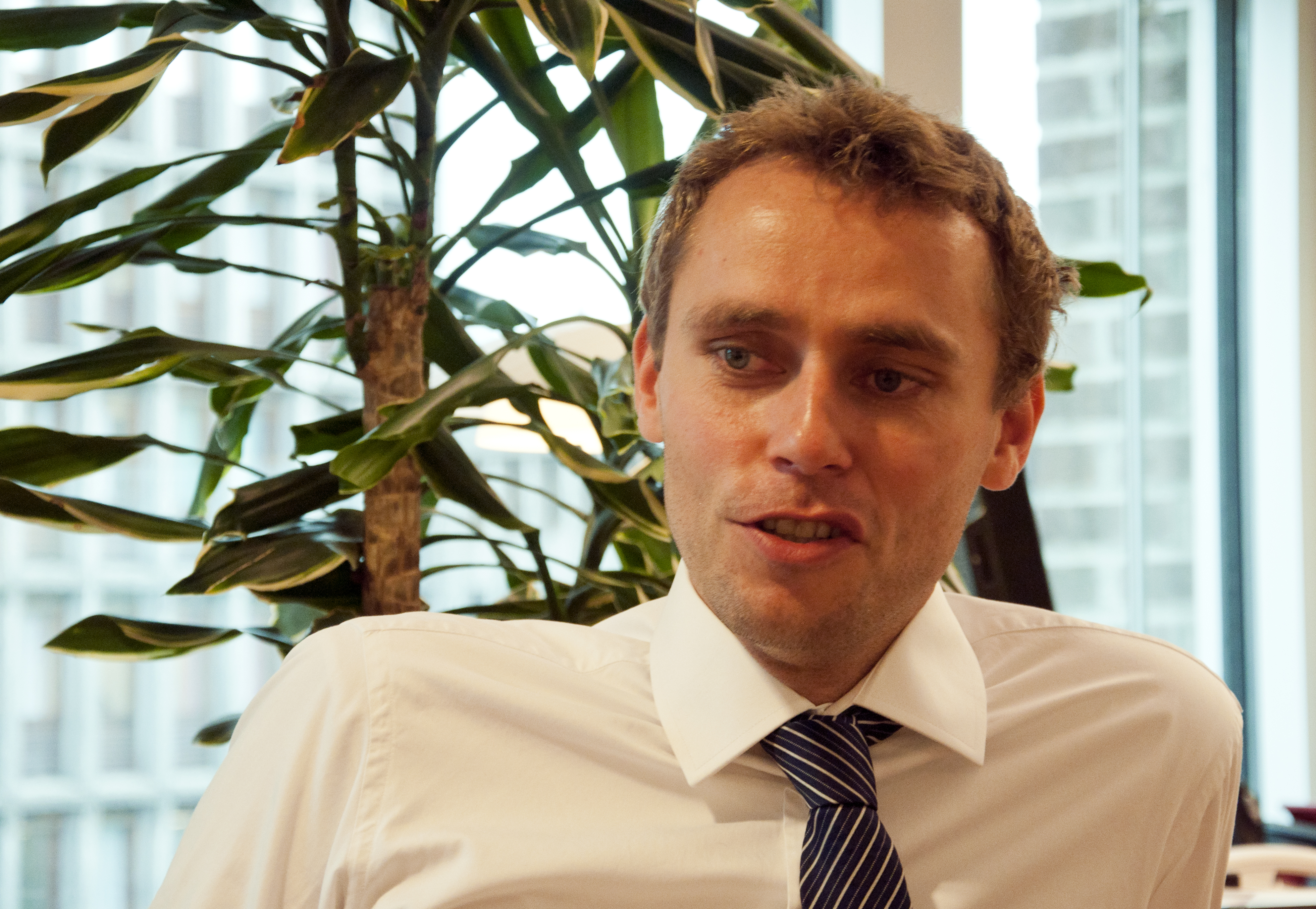 Norwegian minister of Oil and energy Ola Borten Moe